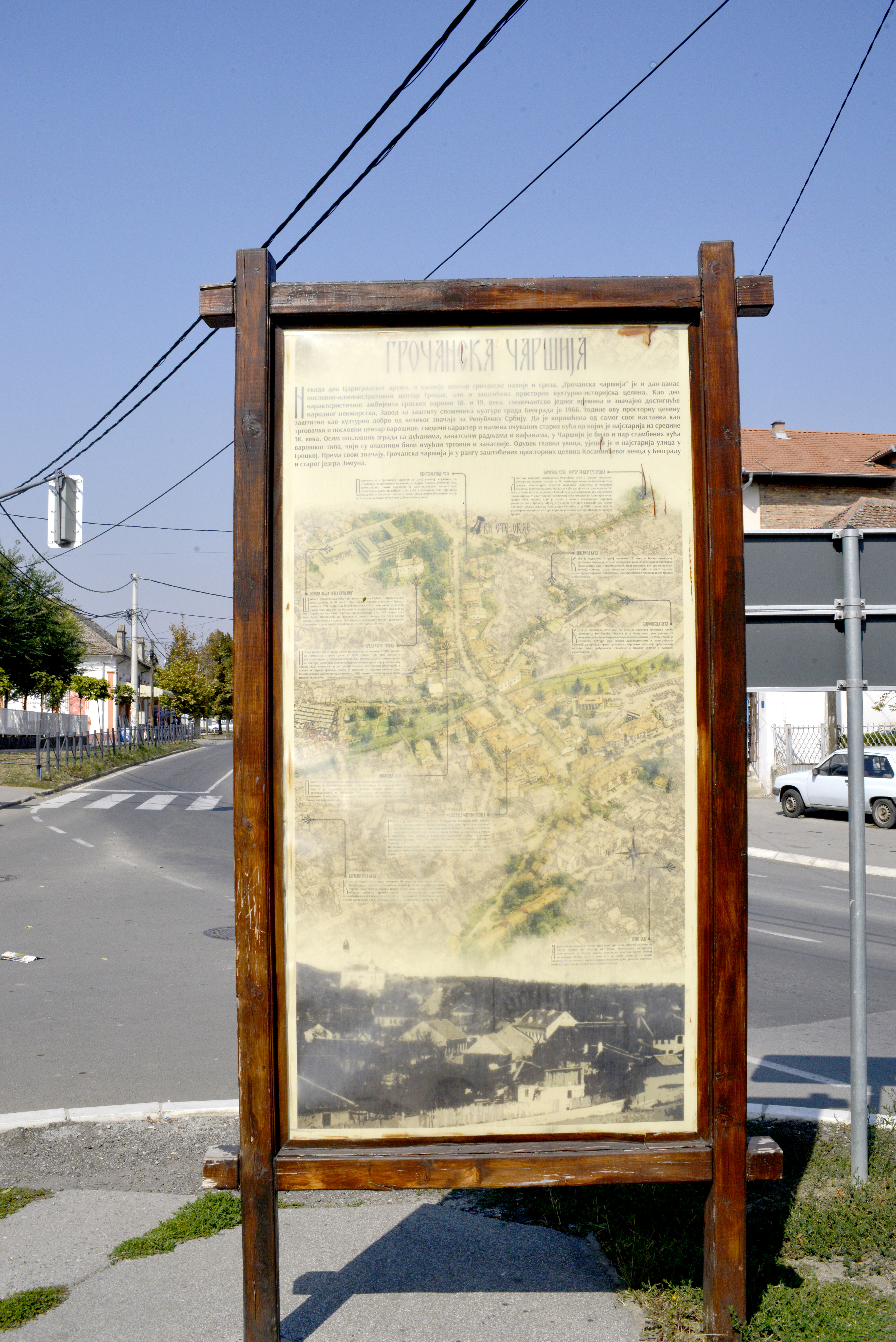 Grocka's Čaršija (Grocka, a town near Belgrade), Cultural heritage monument in Serbia - info board